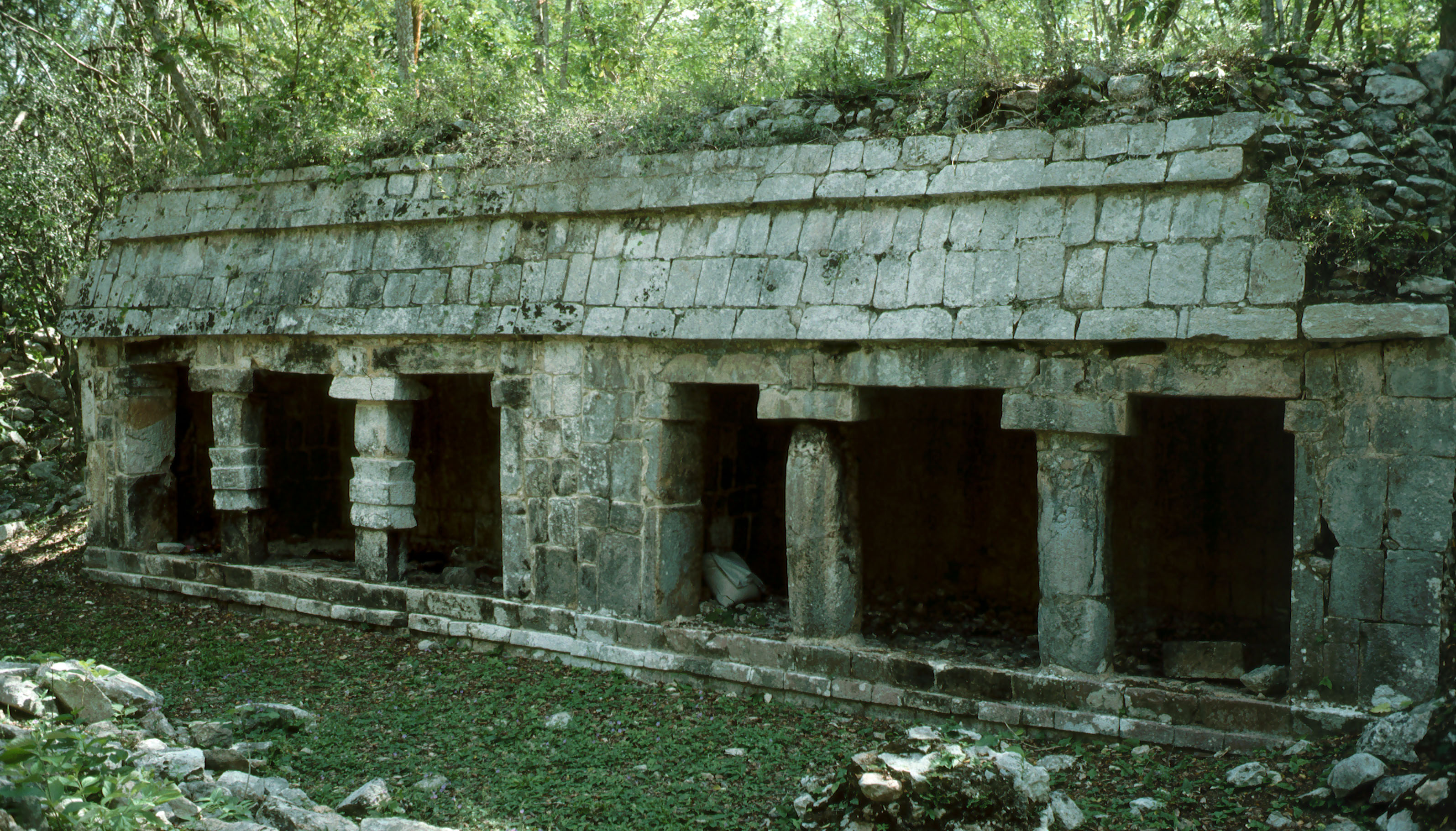 Kivik, Yucatan, Mexico: group 3 building 2.